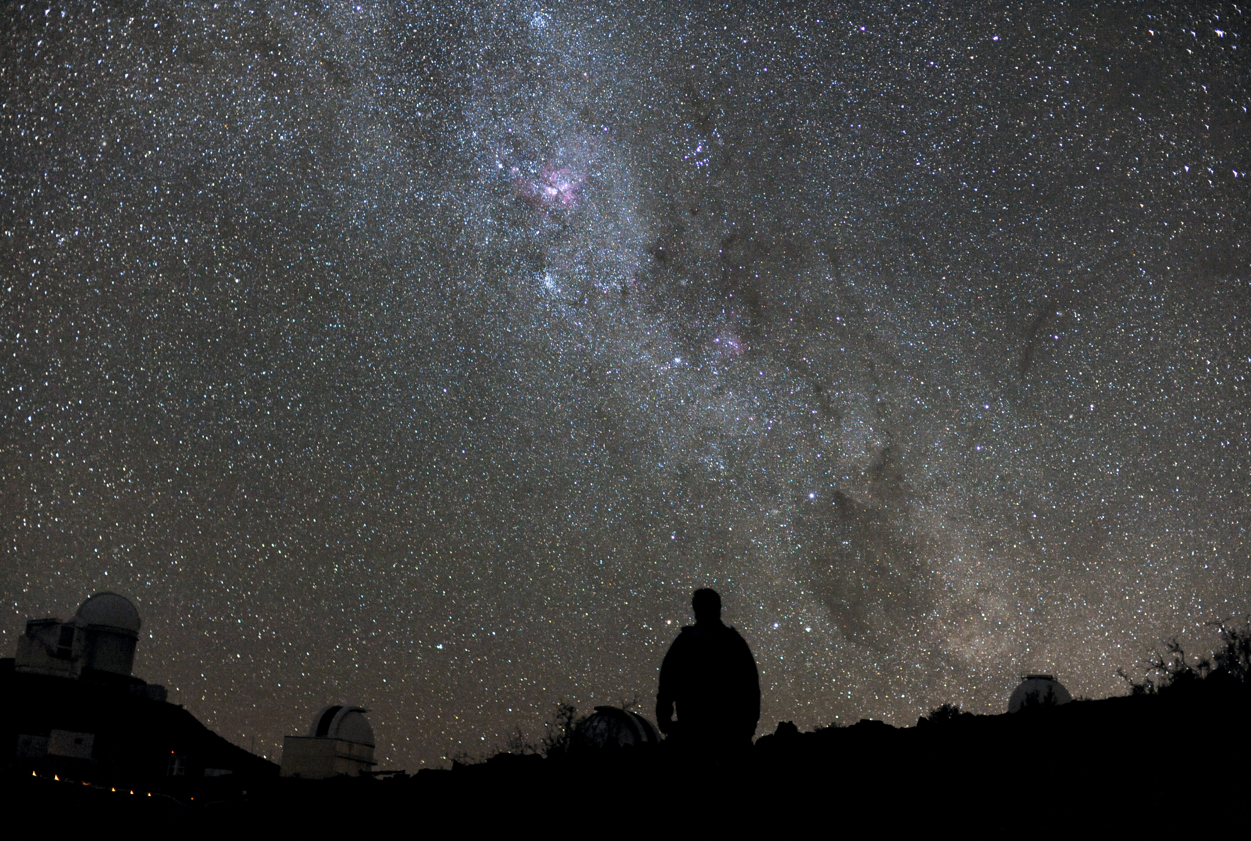 A piercingly bright curtain of stars is the backdrop for this beautiful image taken by astronomer Håkon Dahle. The silhouetted figure in the foreground is Håkon himself surrounded by just a couple of the great dark domes that litter the mountain of ESO’s La Silla Observatory. Many professional astronomers are also keen photographers — and who could blame them? ESO sites in the Atacama Desert are among the best places on Earth for observing the stars, and for the same reason, are amazing places for photographing the night sky. Håkon took these photos while on a week-long observing run at the MPG/ESO 2.2 -telescope. During this time, the telescope was occasionally handed over to a different observing team, giving Håkon the opportunity to admire the starry night — as well as to capture it for the rest of us to see. The Milky Way is brighter in the Southern Hemisphere than in the North, because of the way our planet’s southern regions point towards the dense galactic centre. But even in the South, the Milky Way in the night sky is quite faint in the sky. For most of us, light pollution from our cities and even the Moon can outshine the faint glow of the galaxy, hiding it from view. One of the best aspects of La Silla Observatory is that it is far away from bright city lights, giving it some of the darkest night skies on Earth. The atmosphere is also very clear, so there is no haze to further muddy your vision. The skies at La Silla are so dark that it is possible to see a shadow cast by the light of the Milky Way alone. Håkon submitted this photograph to the Your ESO Pictures Flickr group. The Flickr group is regularly reviewed and the best photos are selected to be featured in our popular Picture of the Week series, or in our gallery.